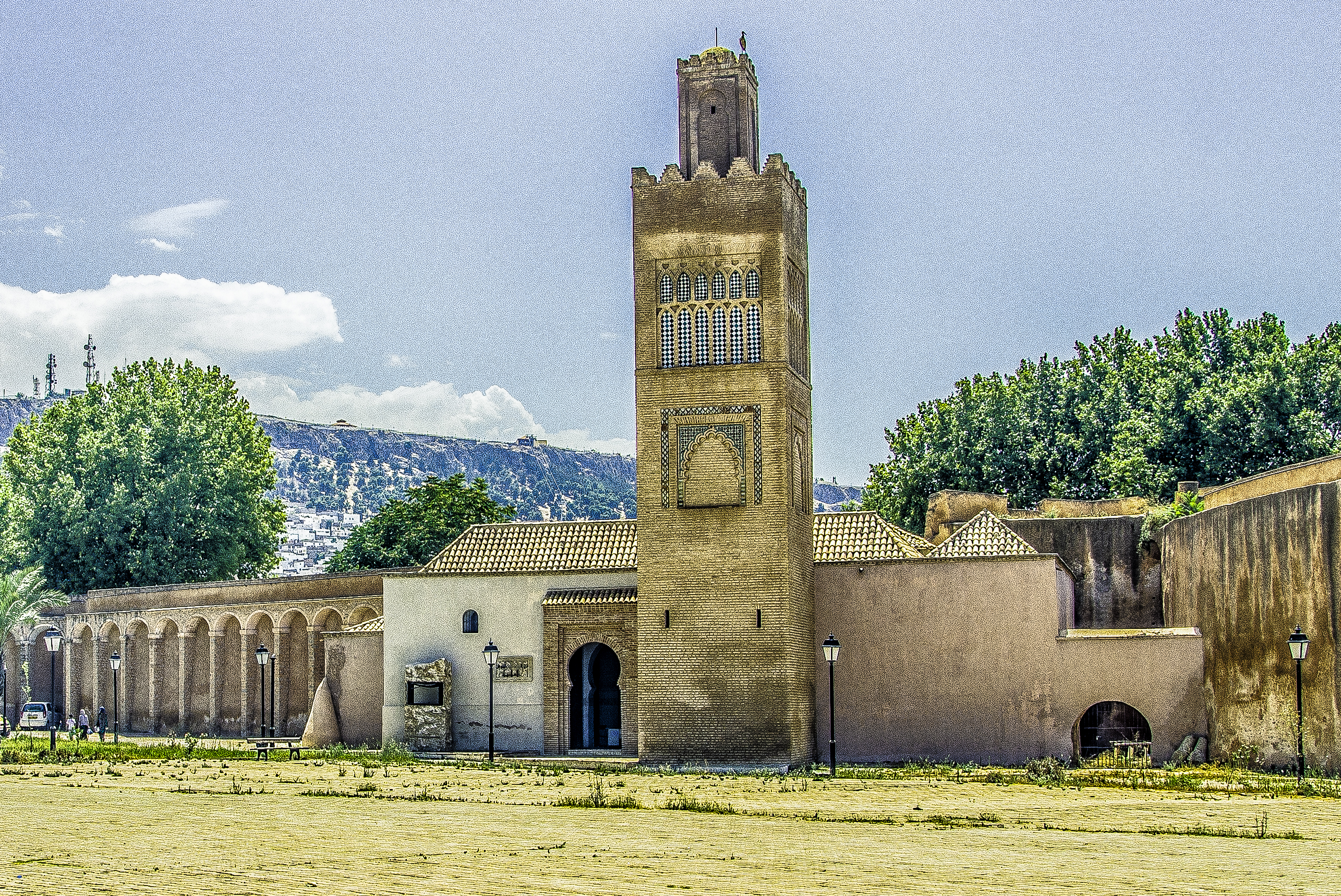 Mosque at El Mechouar Palace in Tlemcen, Tlemcen Province, Algeria